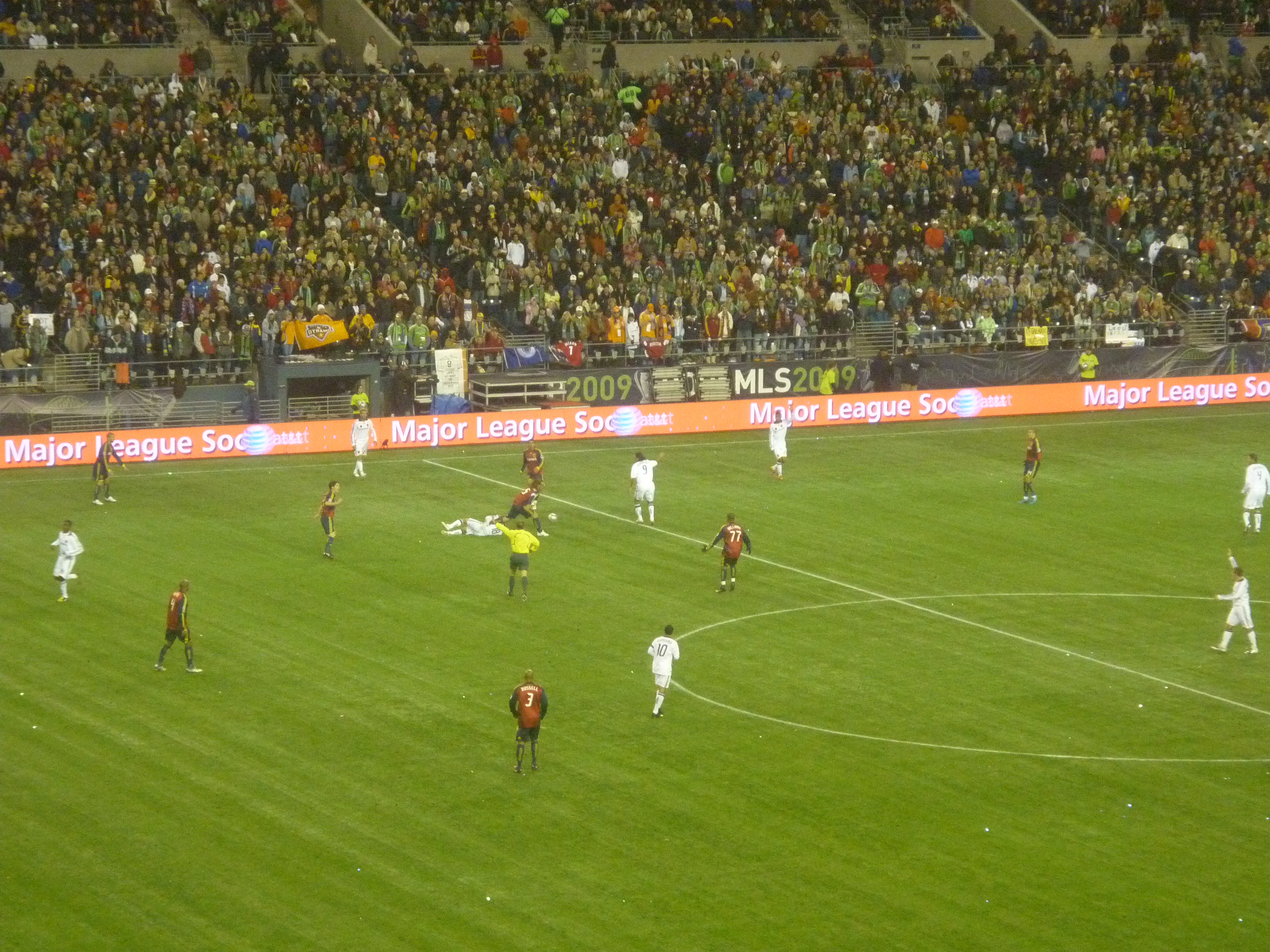 The 2009 MLS Cup Final match at Qwest Field in Seattle, WA on November 22, 2009 between the Los Angeles Galaxy (white) and Real Salt Lake (red).